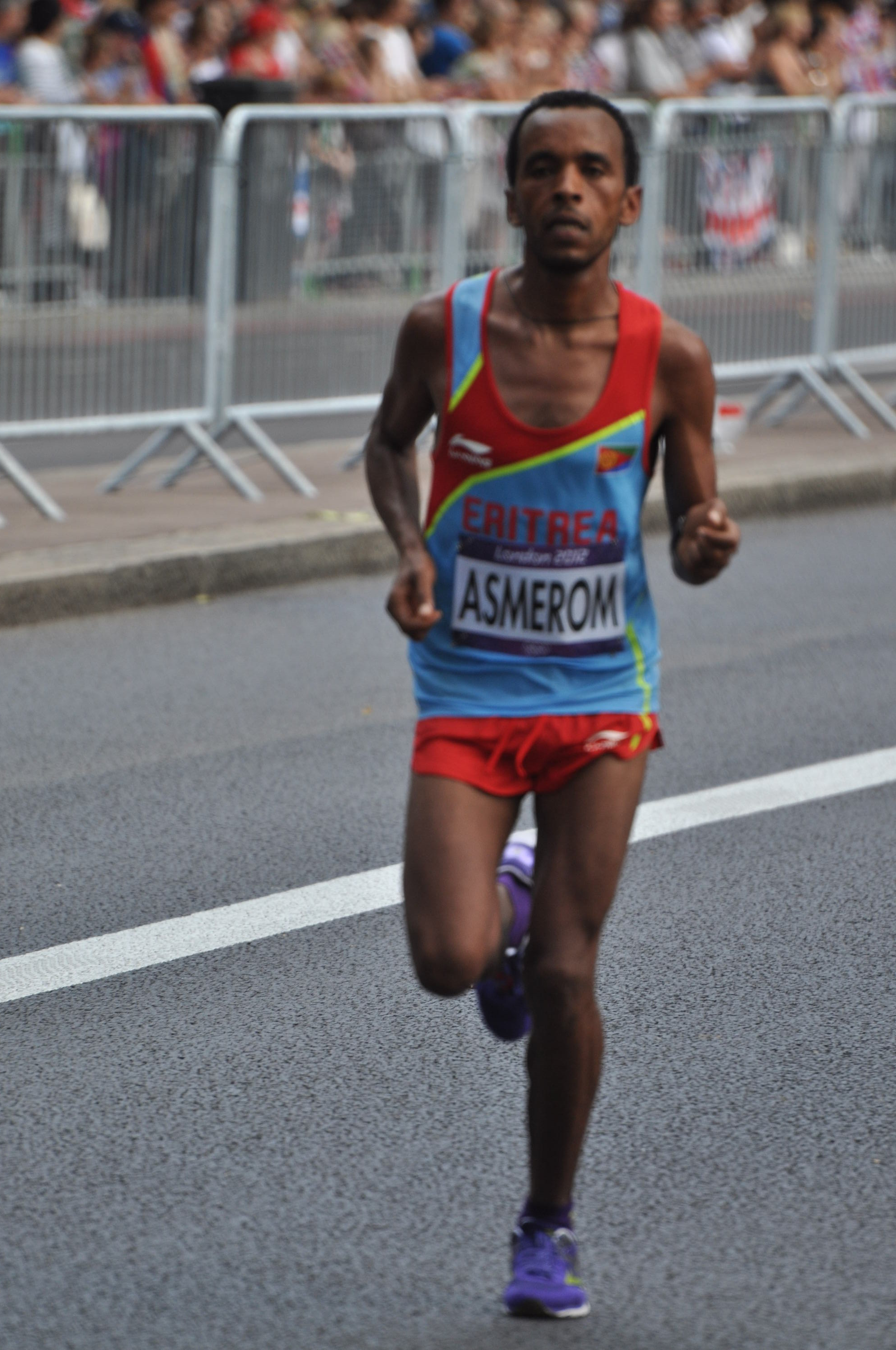 The men's marathon of the 2012 Summer Olympics in London, UK took place on an Olympic marathon street course on Sunday 12th August 2012 at 11:00. This was the final day of the 30th Olympic Games. The London 2012 marathon course is the standard Olympic distance of 26 miles 385 yards and consists of one short lap of approx 2.2 miles followed by three longer laps of 8 miles. The course began on The Mall and travelled past several of the most famous London landmarks. The start/finish line was near the Victoria Memorial. These photographs were taken at the Victoria Embankment. This featured several times on the looped course. The approximate location from the photographs is shown in the Google StreetView Link below. Stephen Kiprotich won in 2 hours, 8 minutes, 1 second as he pulled away from the Kenyan duo of Abel Kirui and Wilson Kiprotich Kipsang. These photographs are unofficial photographs. They are not endorsed by London 2012. There are not commercially available. They are available for use under a Creative Commons License. Please link back to the photograph on my Flickr account if you use the image.